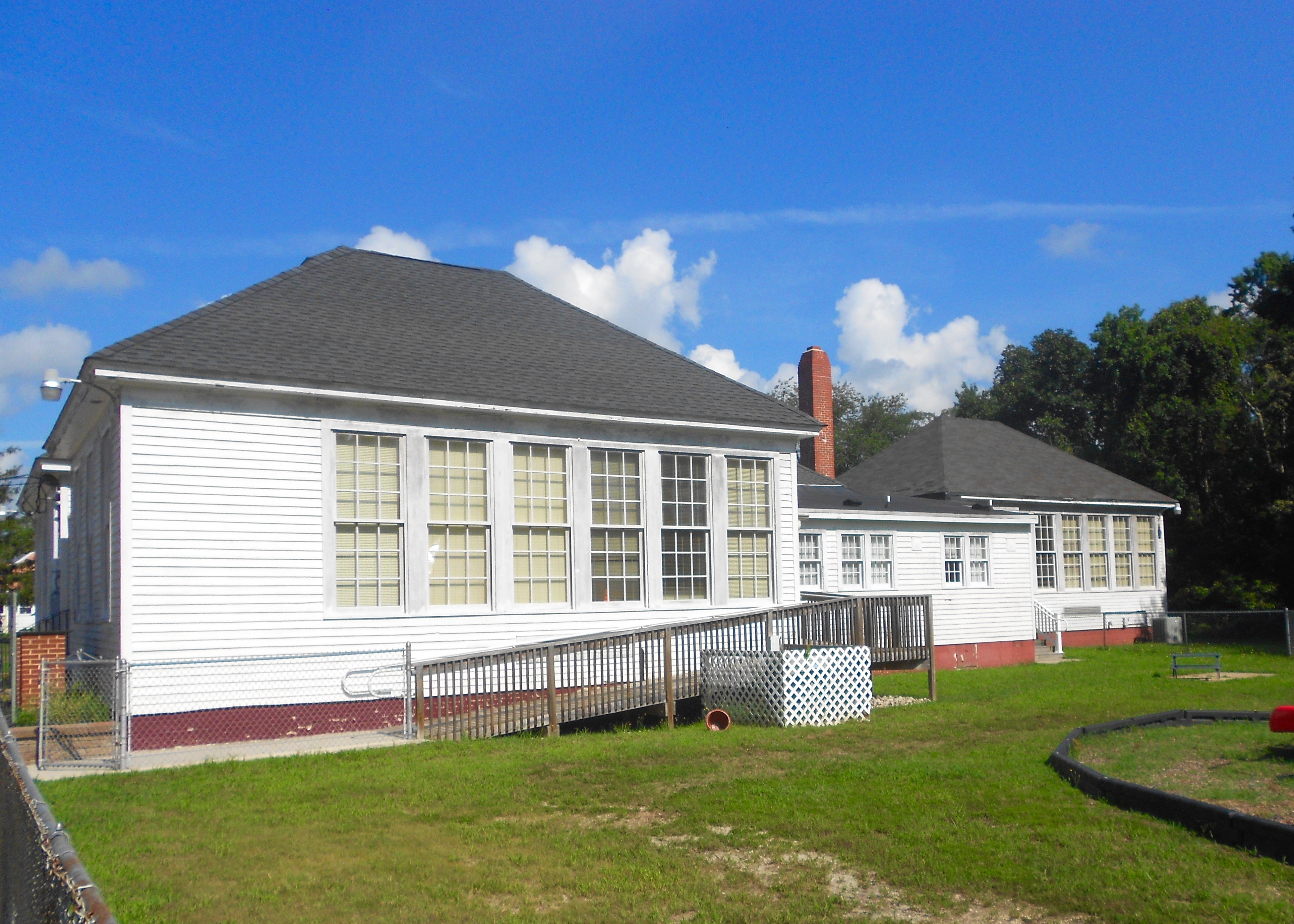 Rear of the historic school in Whitesboro, an unincorporated community and Census Designated Place in Middle Township, Cape May County, New Jersey